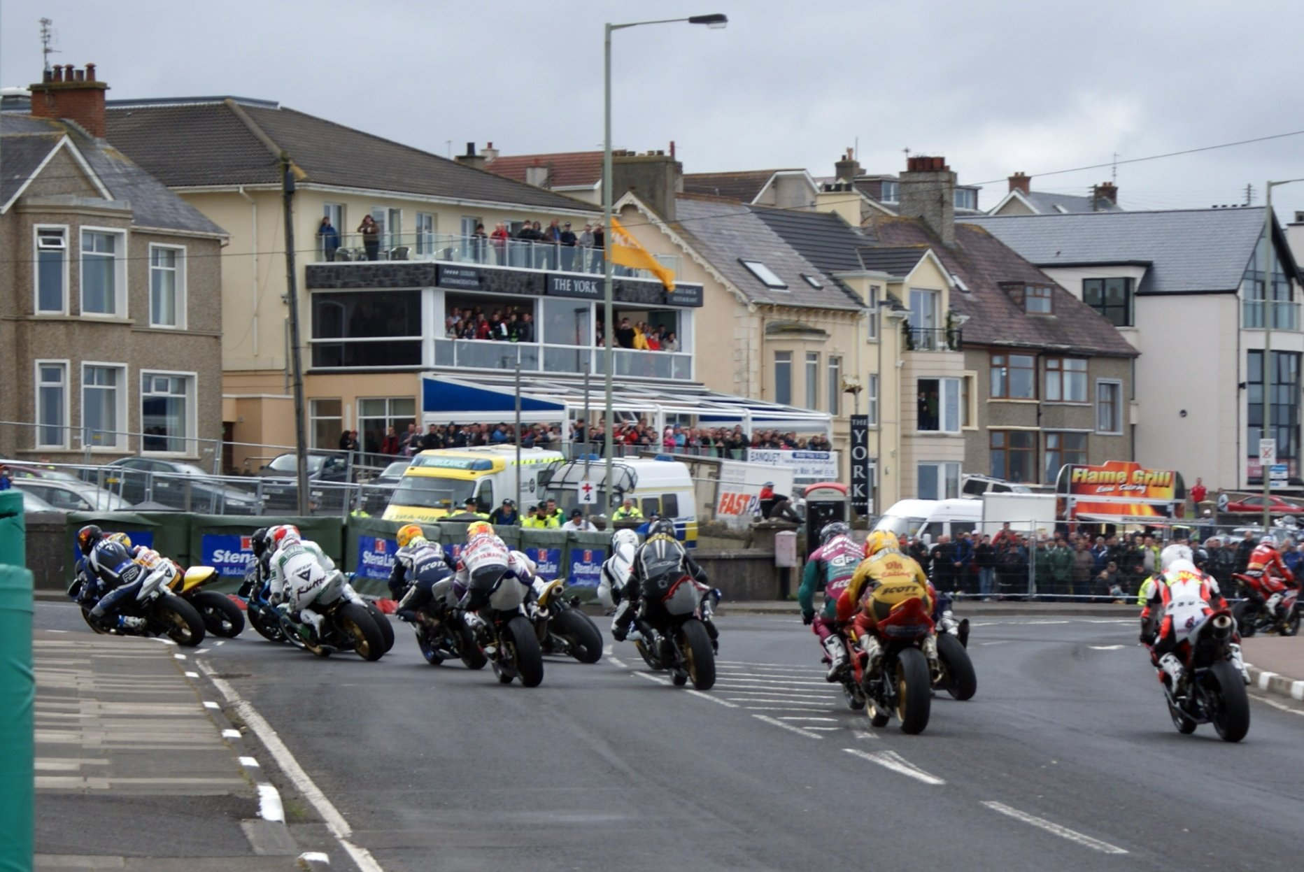 York Corner, Portstewart, Co Londonderry. Part of the North West 200 circuit.